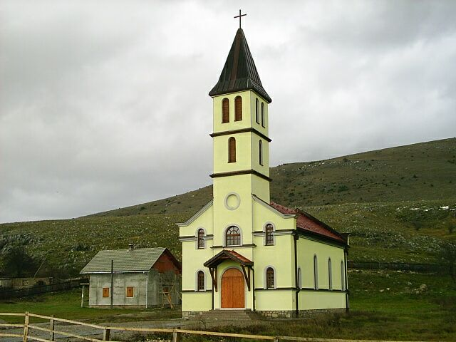 Catolic church sv. Ilije Proroka in the town of Obljaj, BiH